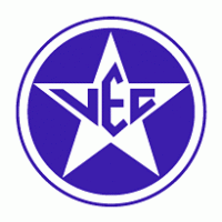 Antigo Brasão do Vila Esporte Clube usado até 1962